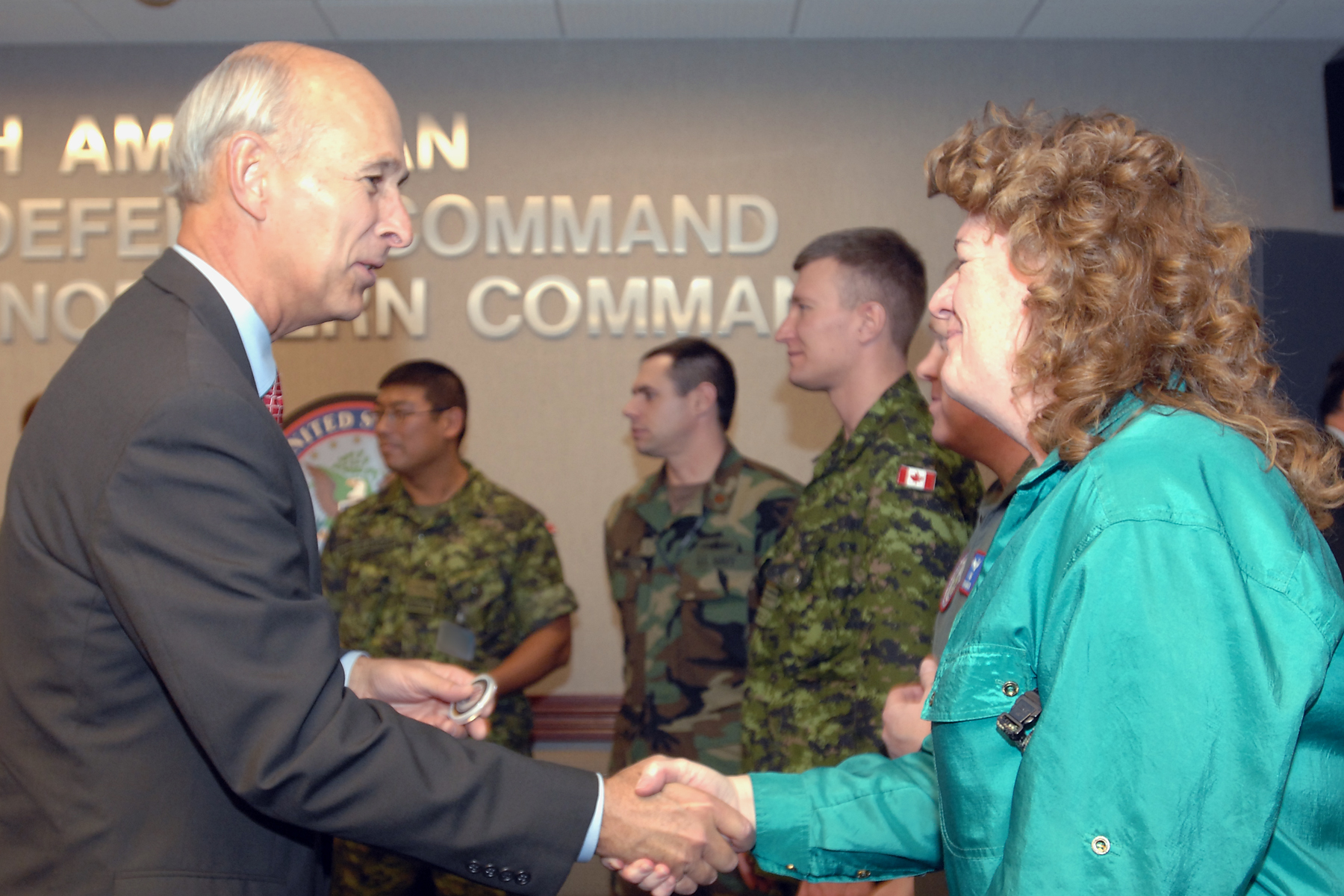 G. Kim Wincup, chairman of the Reserve Forces Policy Board, recognizes Kim Robinson of U.S. Northern Command with his coin during the Board's visit to North American Aerospace Defense Command and USNORTHCOM headquarters at Peterson Air Force Base, Colo., on April 16, 2008. Members of the Reserve Forces Policy Board, the principal policy advisor on reserve matters to the secretary of defense, came to the commands to more learn about NORAD's and USNORTHCOM's homeland defense and civil support missions. Photo by Sgt. 1st Class Gail Braymen